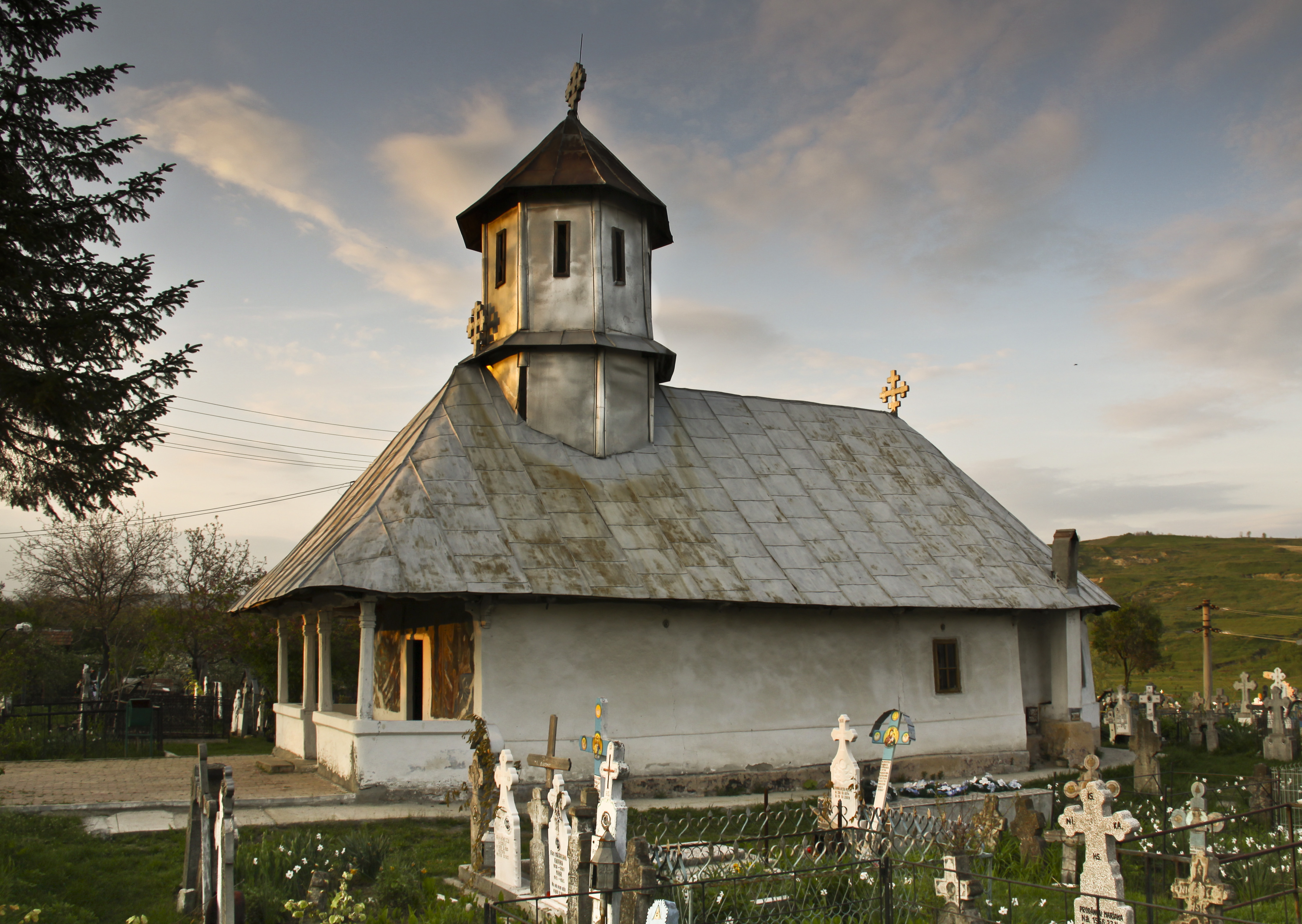 Roşioara, Vâlcea county, Romania: the wooden church.